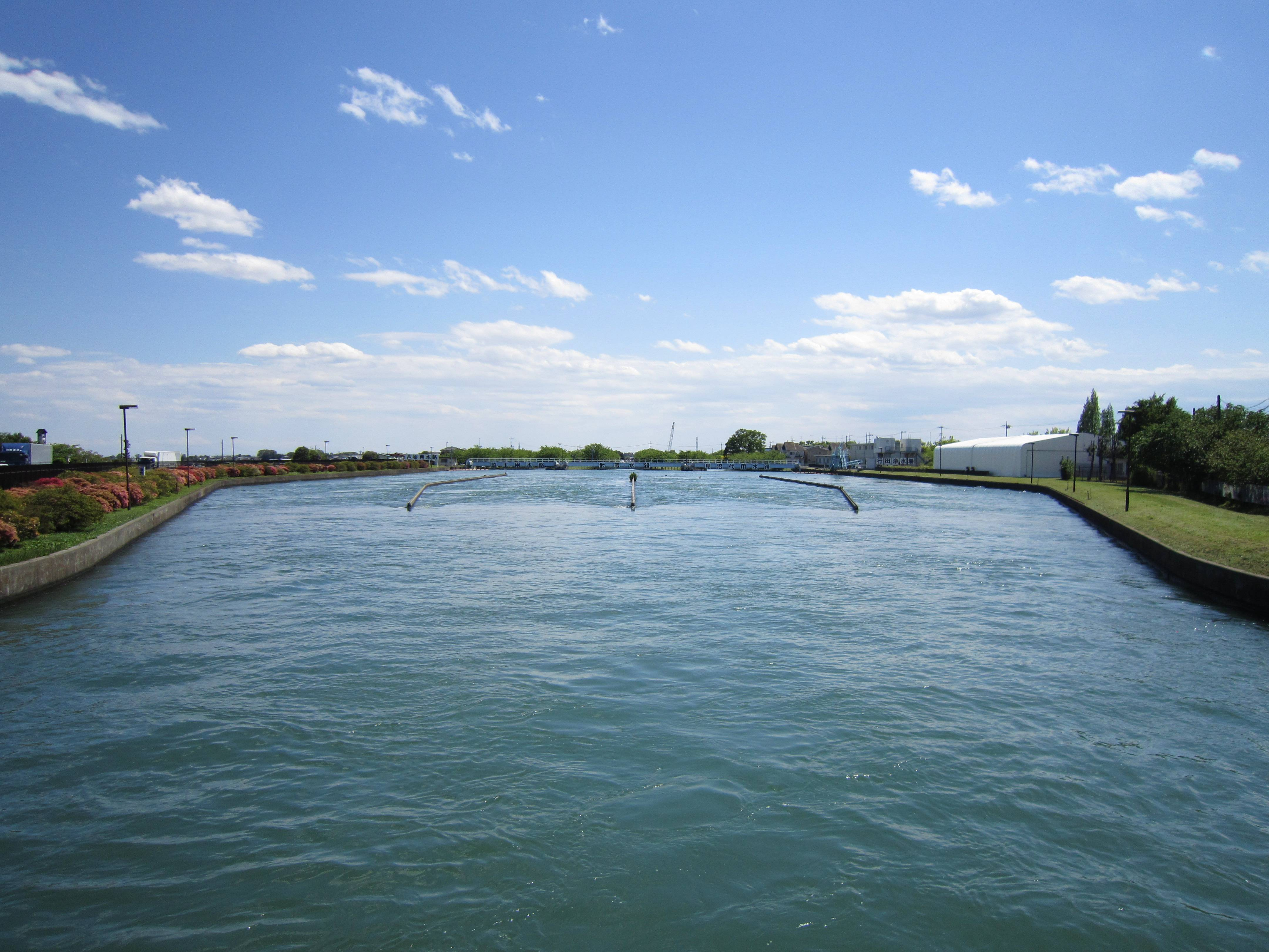 Tone Diversion Weir settling basin.